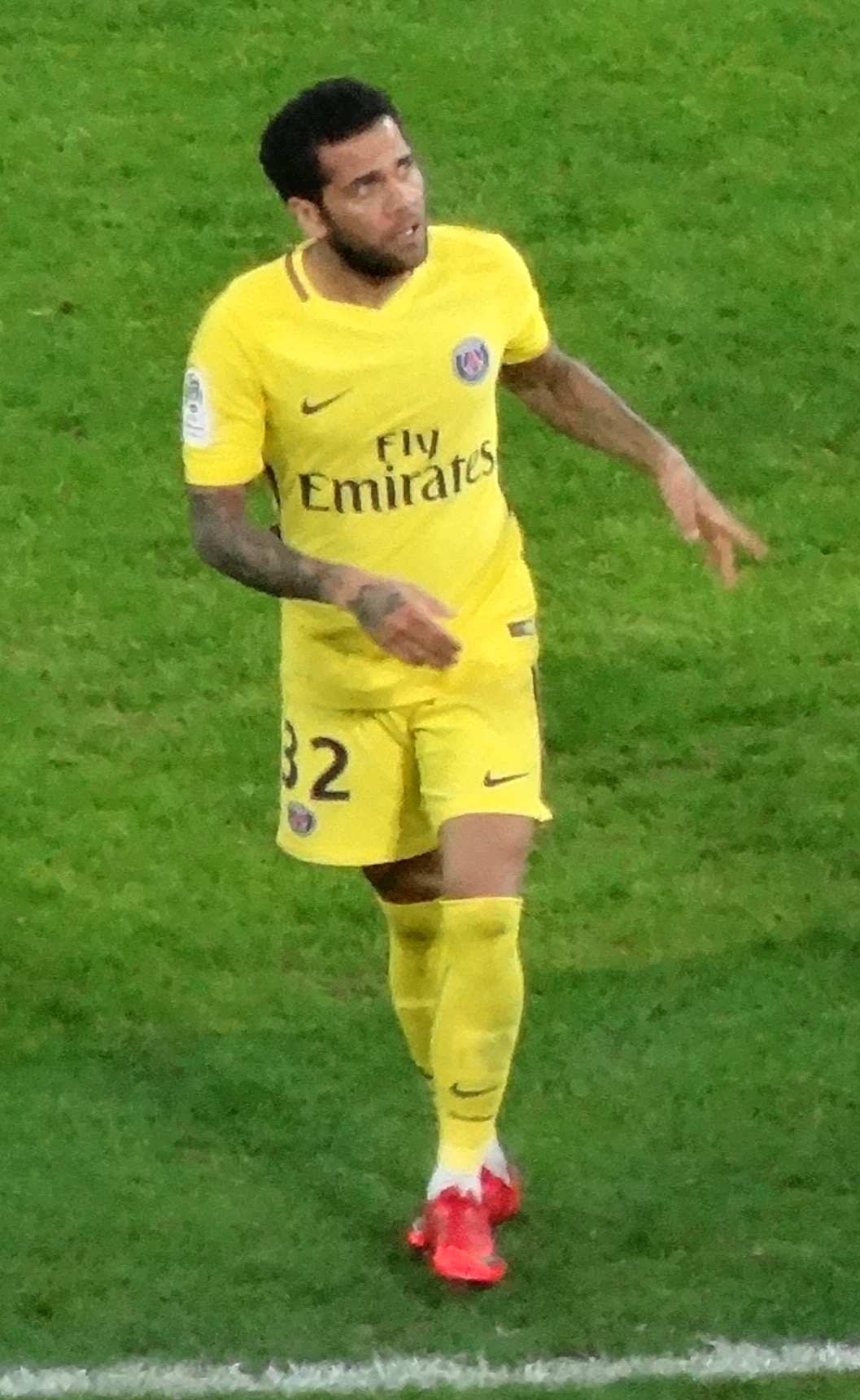 Daniel Alves (PSG)